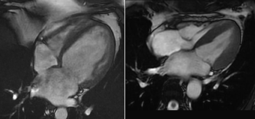 Human heart with dilated cardiomyopathy (left) and normal heart (right), shown in cardiac MRI